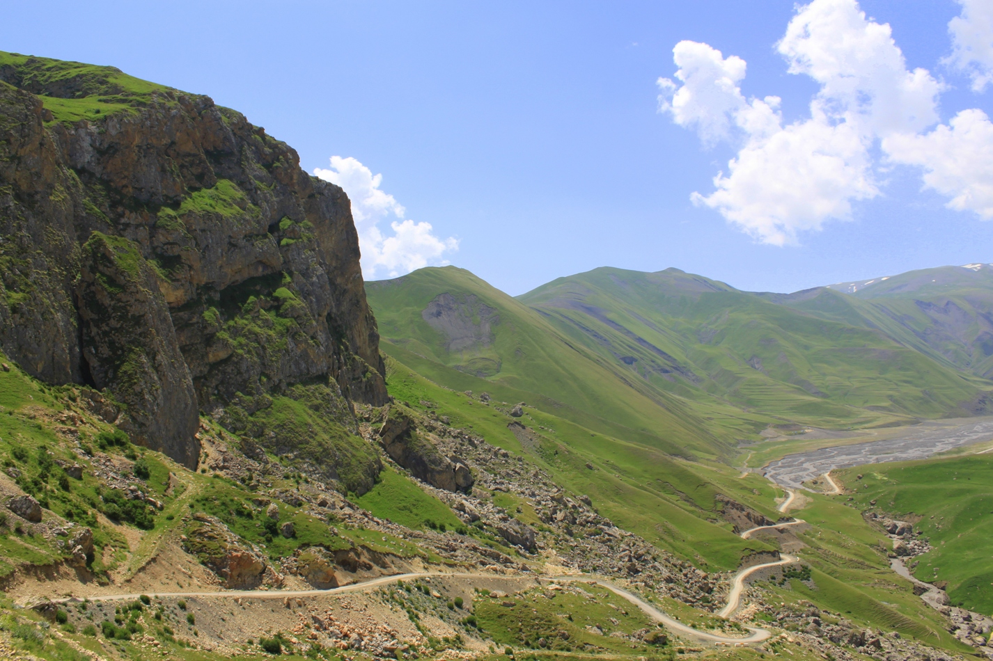 Quba area, Azerbaijan.